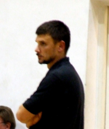 Jarosław Bodys - polish volleyball coach